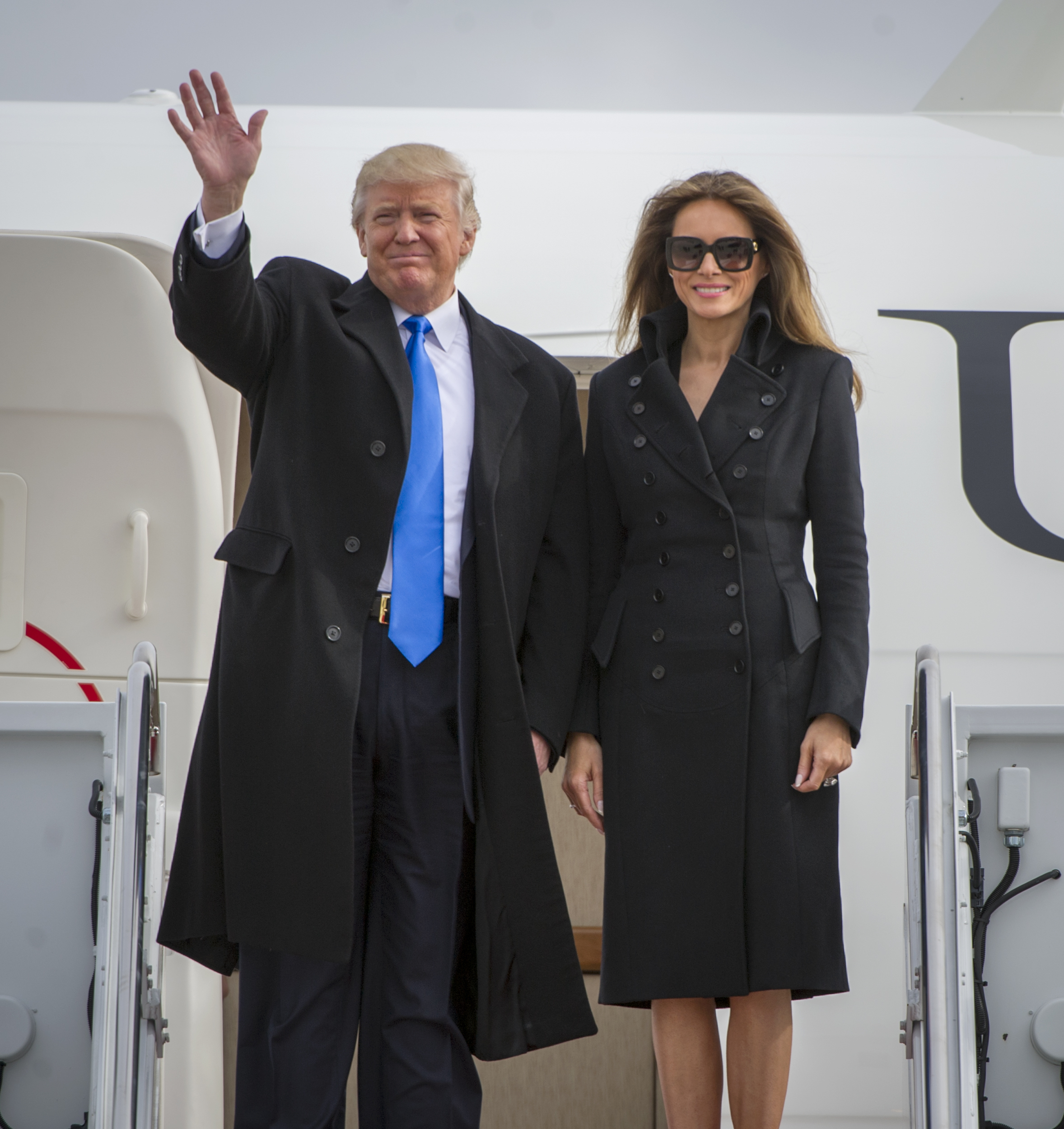 President-Elect Donald Trump waves to a crowd, alongside his wife, Melania Trump, as they depart an aircraft at Joint Base Andrews, Md., Jan. 19, 2017. Trump arrived here in preparation for the 58th Presidential Inauguration, Jan. 20, where he will take the oath as the President of the United States. (U.S. Air Force photo by Airman 1st Class Gabrielle Spalding)